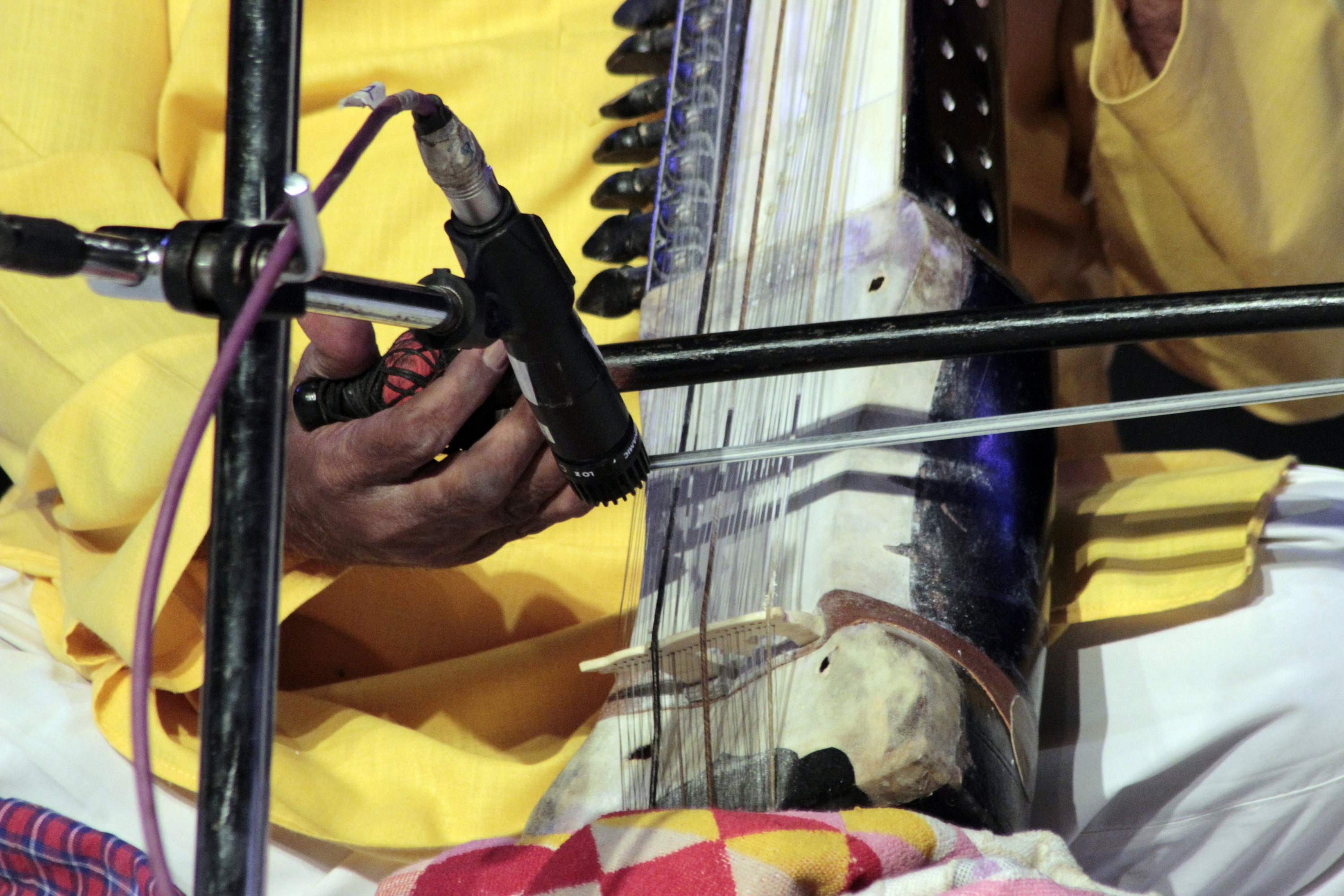 Sarngi Player in India